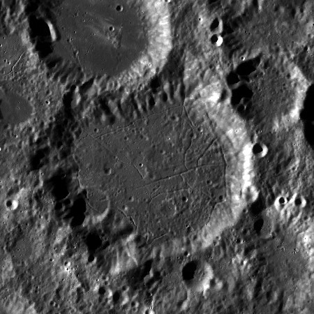 LROC . Dark floor satellite Garavito Y intrudes into Garavito northern part of the rim.